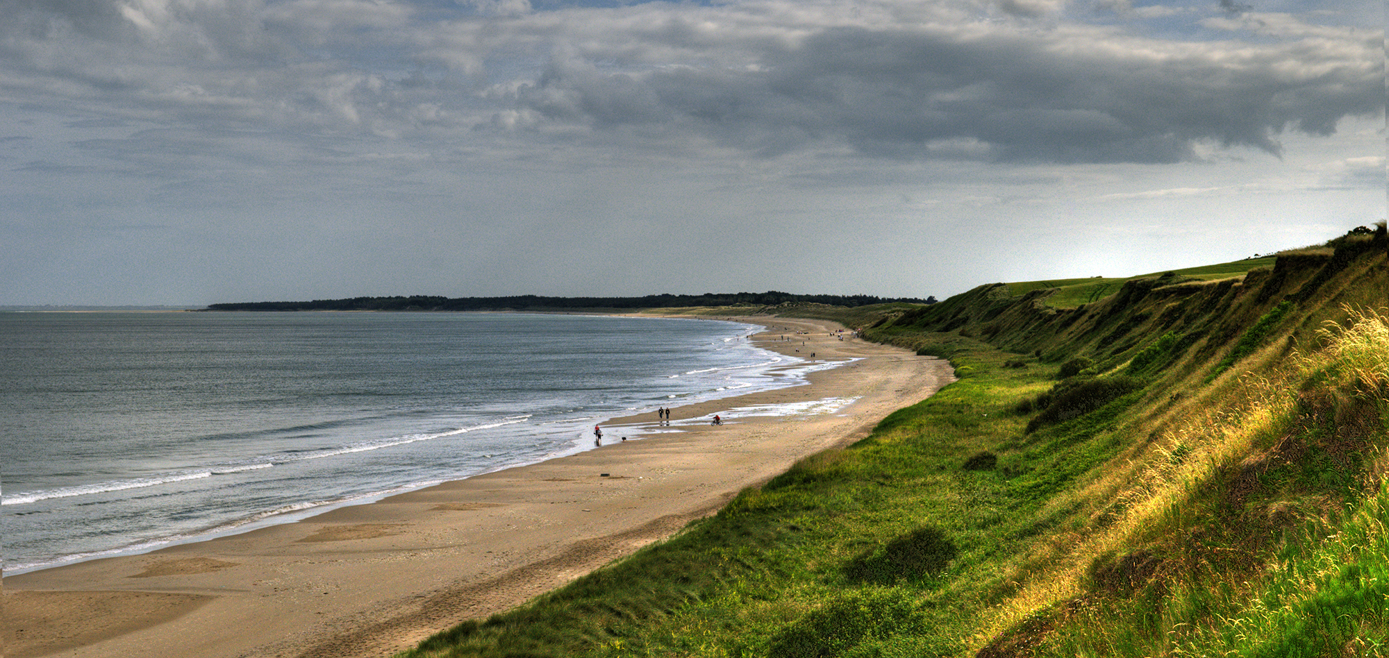 Ballinesker Beach, Curracloe Stand, Ballinesker, east of Curracloe, Wexford, Ireland